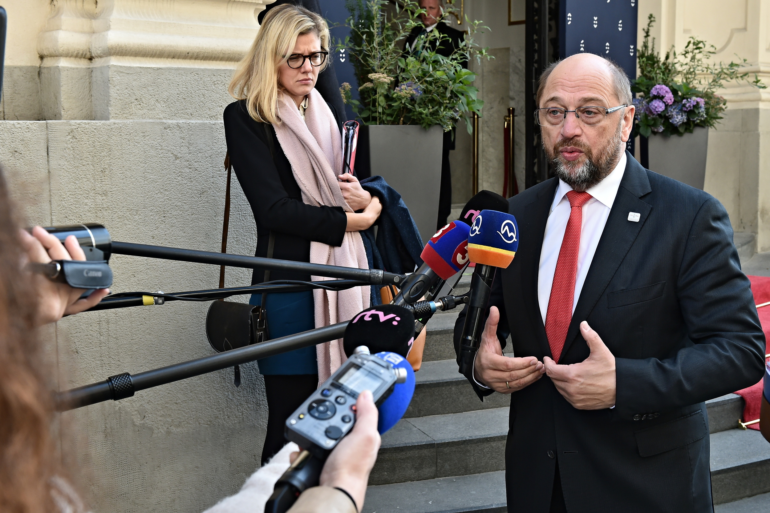 European Parliament Mr Martin Schulz, President Photo Rastislav Polak